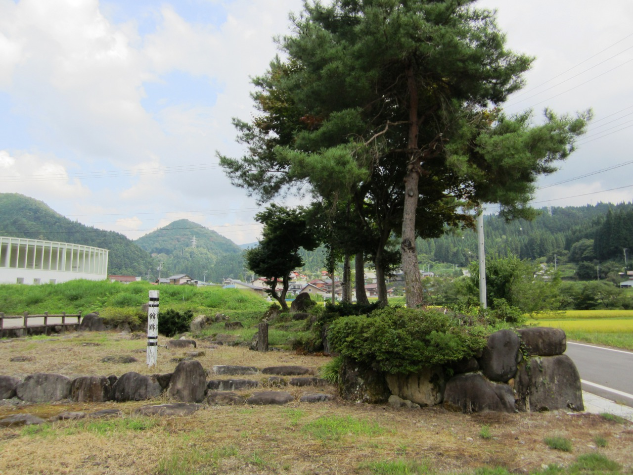 The site of Sumi clan's residence in Gujo, Gifu.